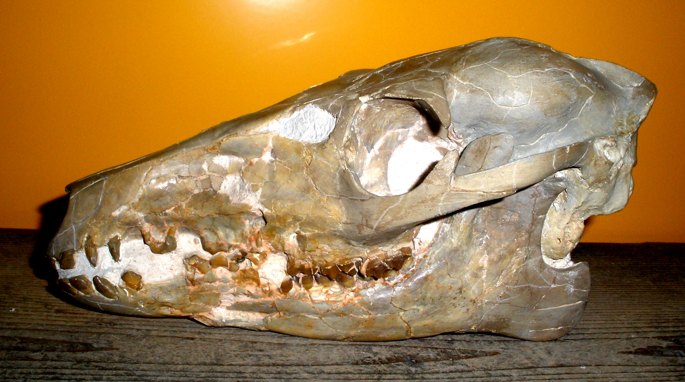 Fossil of Poebrotherium wilsoni, an extinct mammal Took the photo at Museo di Storia Naturale, Milano